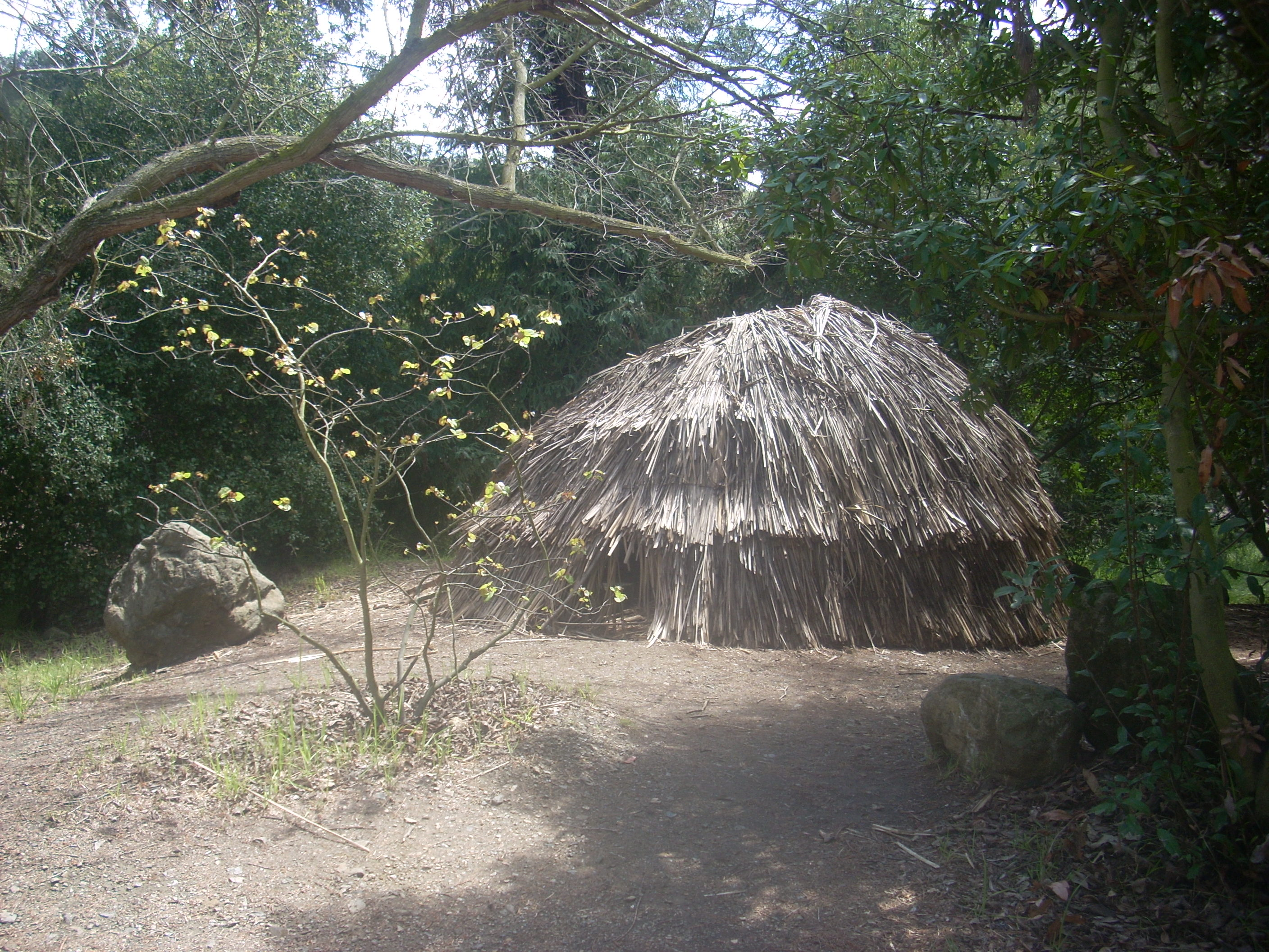 Replica of a Tongva ki located at Franklin Canyon Park in the Santa Monica Mountains